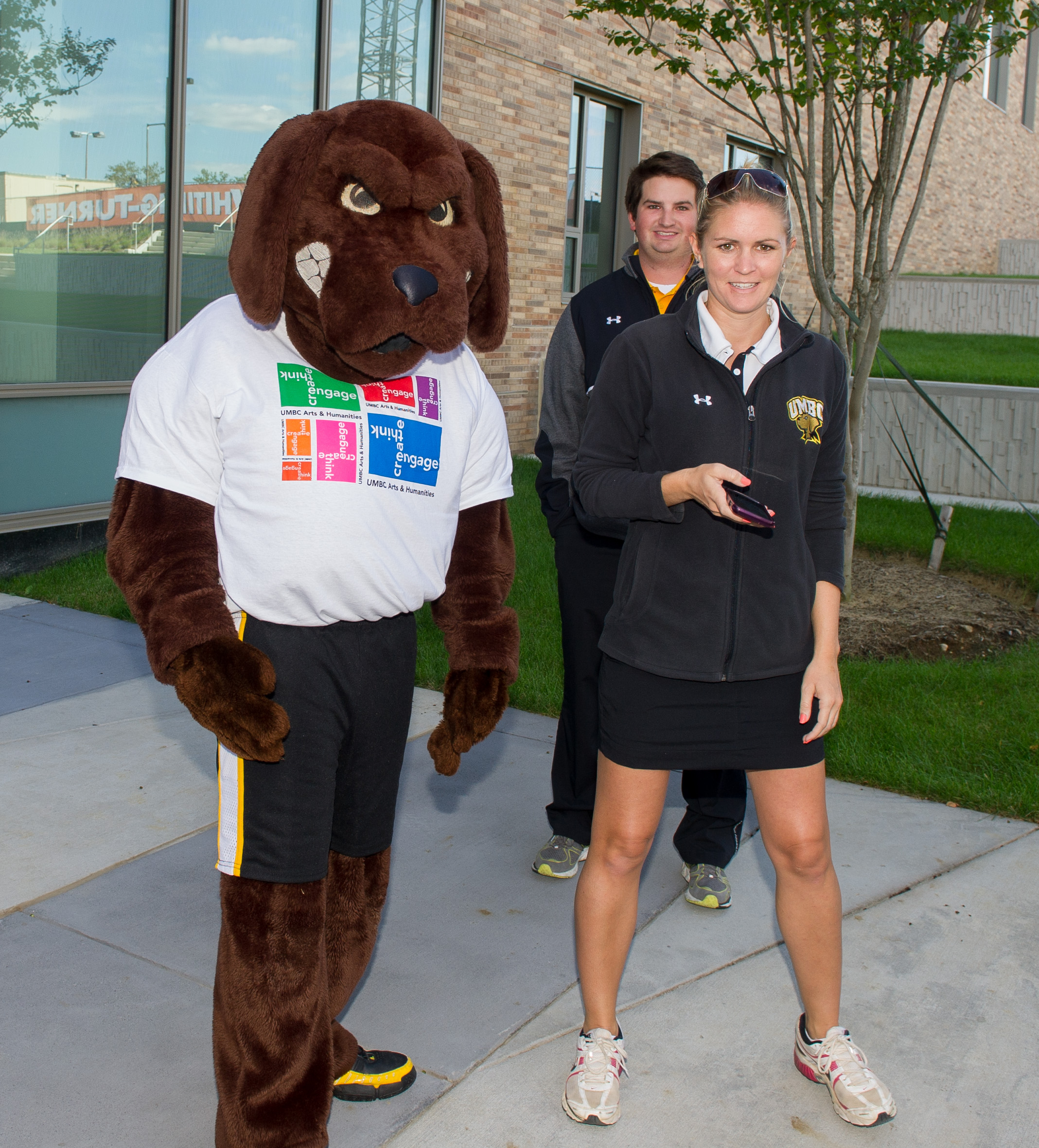 UMBC Performing Arts and Humanities Building Grand Opening. by Jay Baker at Baltimore, MD.